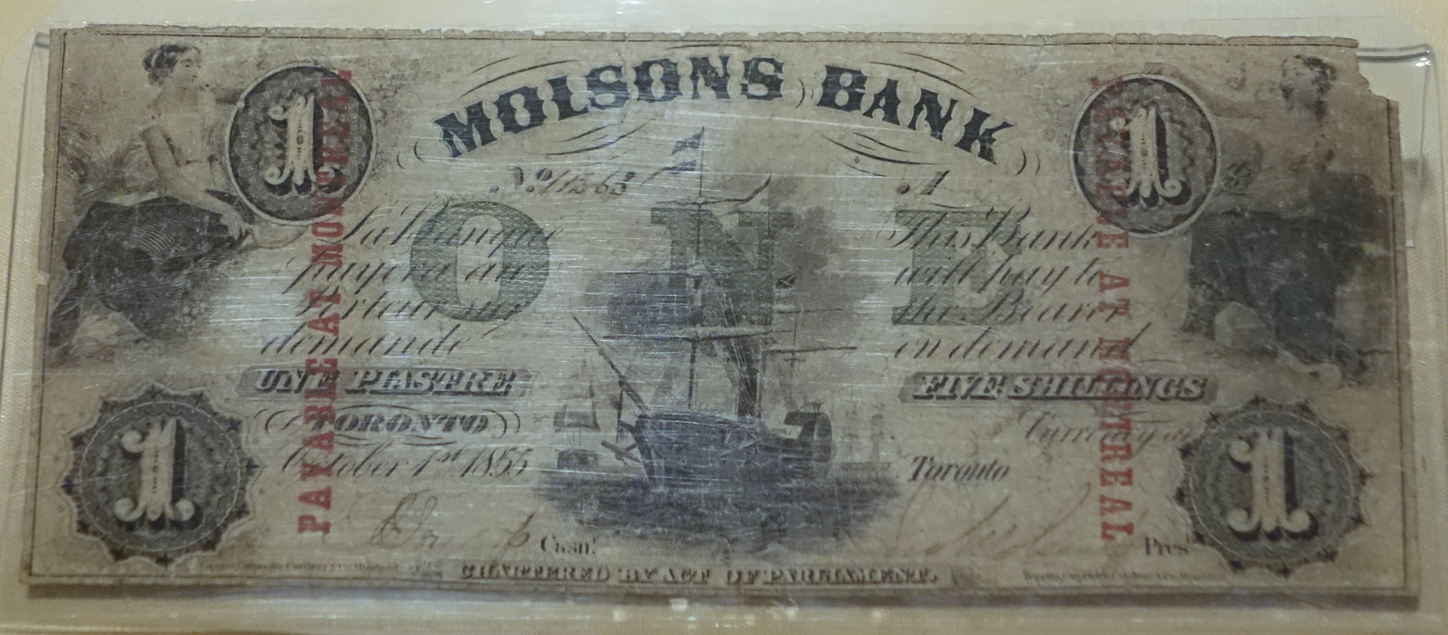 Exhibit in the Château Ramezay - Montreal, Quebec, Canada.